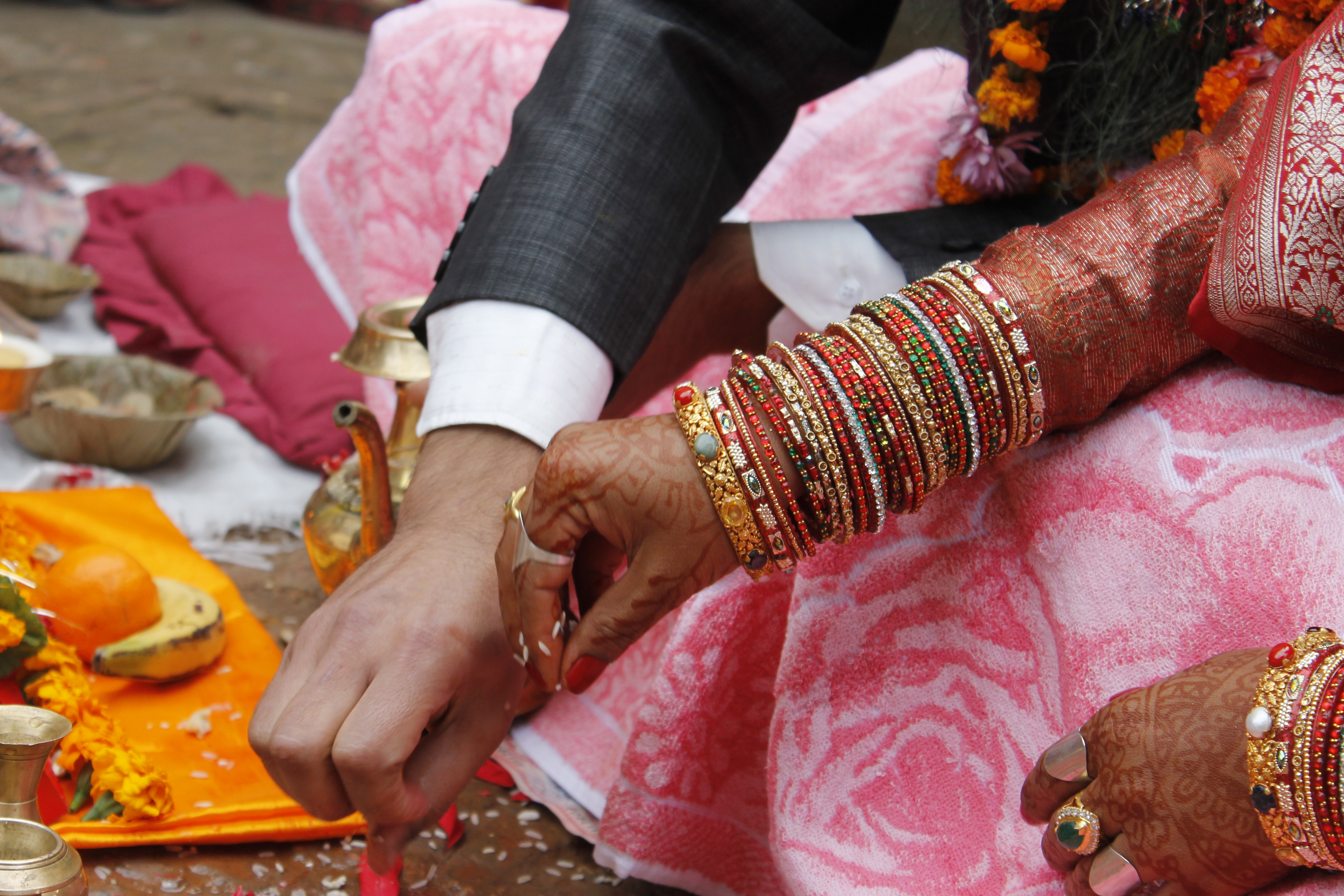 An inter-cast marriage in Lalitpur district, Nepal.